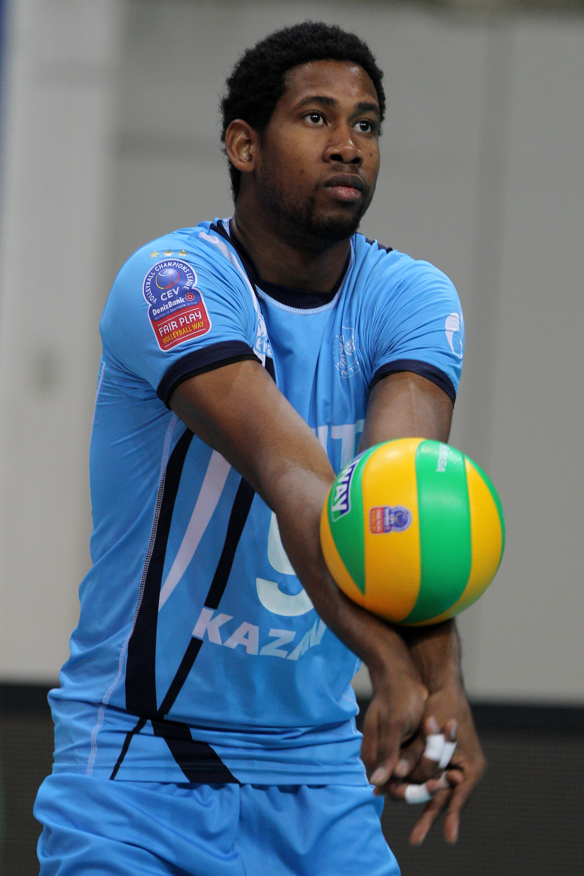 KAZAN, RUSSIA - DECEMBER 02: Wilfredo Leon of Zenit Kazan during the CEV Men's Volleyball Champions League game between Zenit Kazan and Halkbank in Kazan, Russia on December 02, 2015. (Photo by Ilnar Tukhbatov/Anadolu Agency)